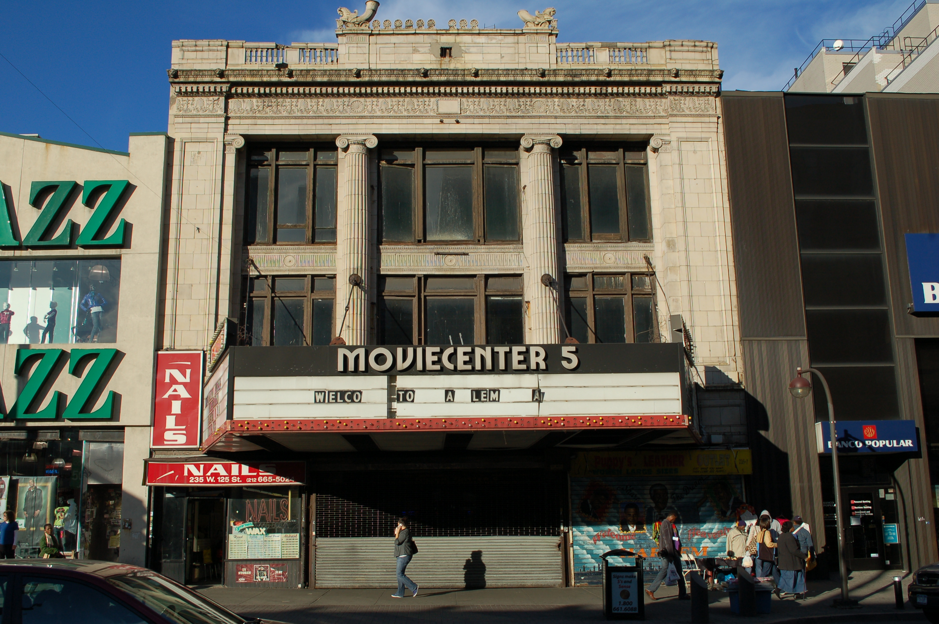 Looking north across 125th Street at Victoria Theater in New York City